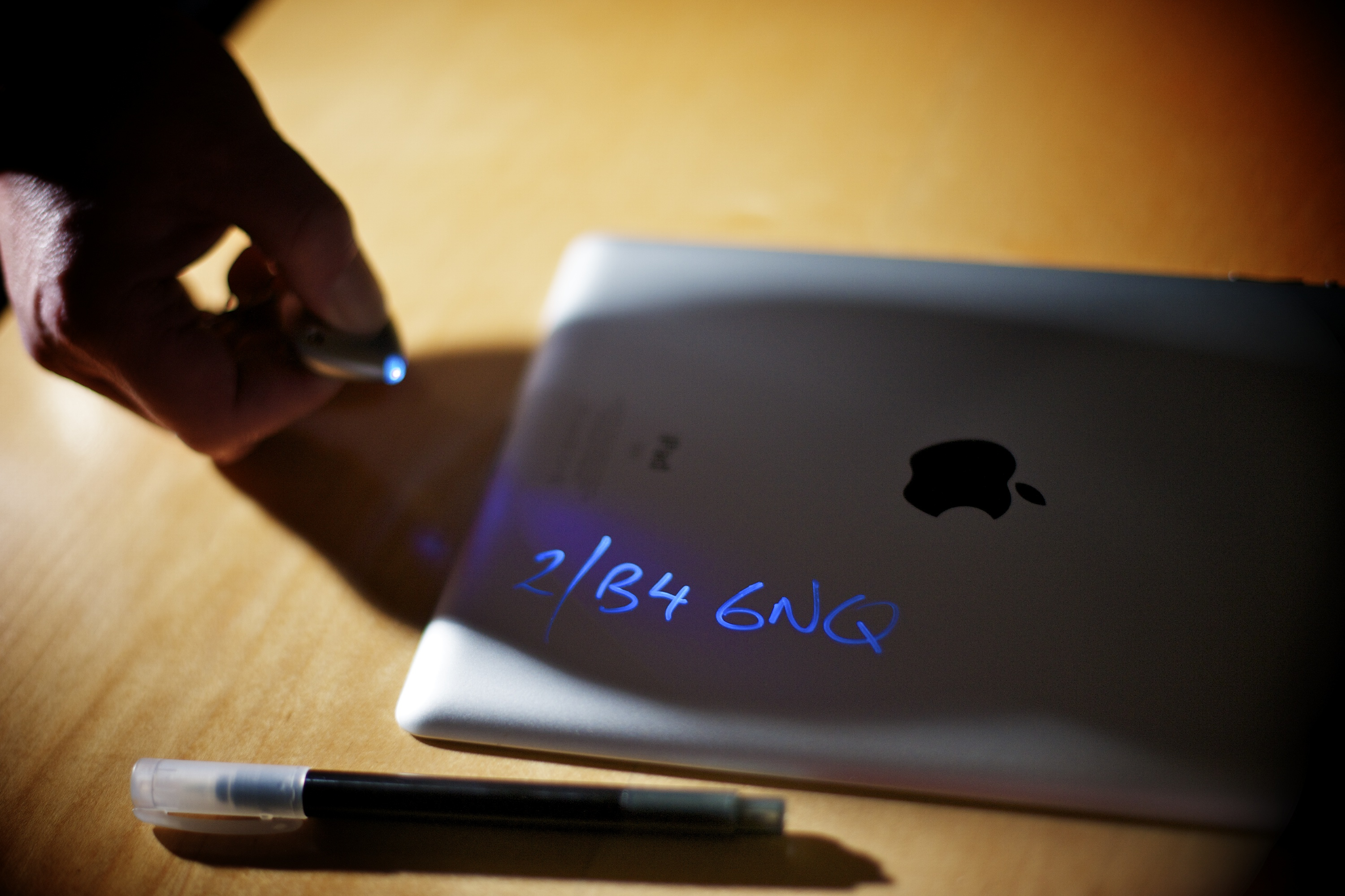 Often when stolen property is seized it can be difficult to locate and return it to their rightful owner. One of the ways you can help is by marking your property with a UV marker pen. Just write your property number and postcode on the item, and officers will be able to identify it with a UV light.